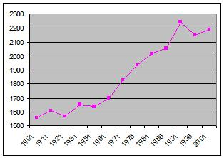 Line chart of the population of the Guernsey parish of Saint Peter's